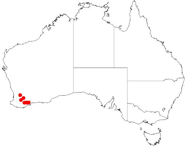 Acacia cassicula Occurrence data from Australasia Virtual Herbarium downloaded from on 8 December 2018